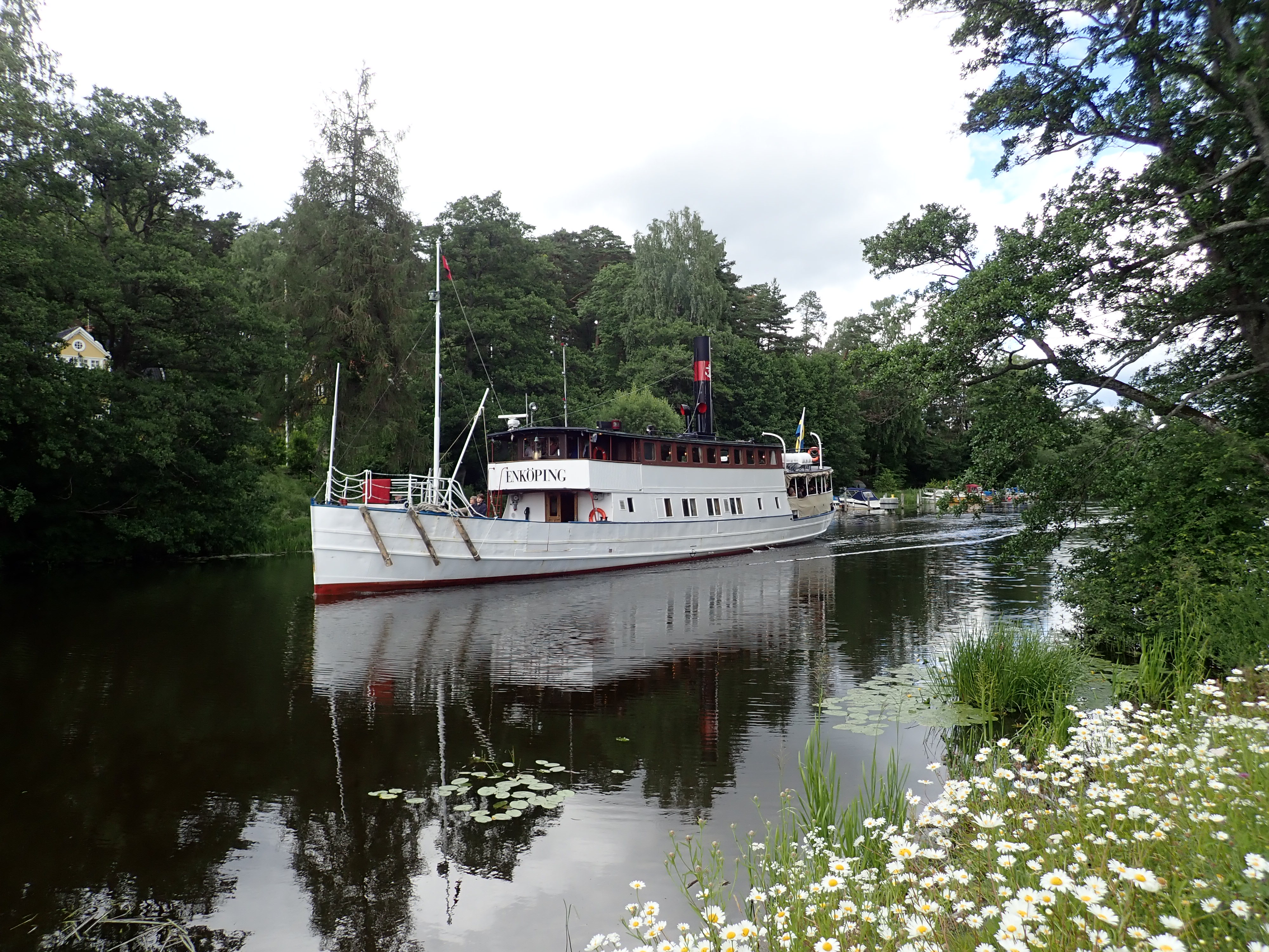 M/S Enköping from 1868 approaching the Flottsund bridge in the Fyris river on her way from the centre of Uppsala to Mälaren on July 6, 2019. The picture is taken from the Kungshamn-Morga nature reserve.